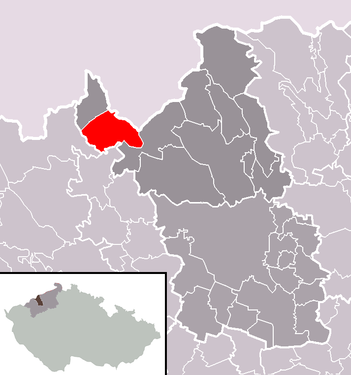 Location of Hora Svaté Kateřiny town within Most District and administrative area of Litvínov as a Municipality with Extended Competence.